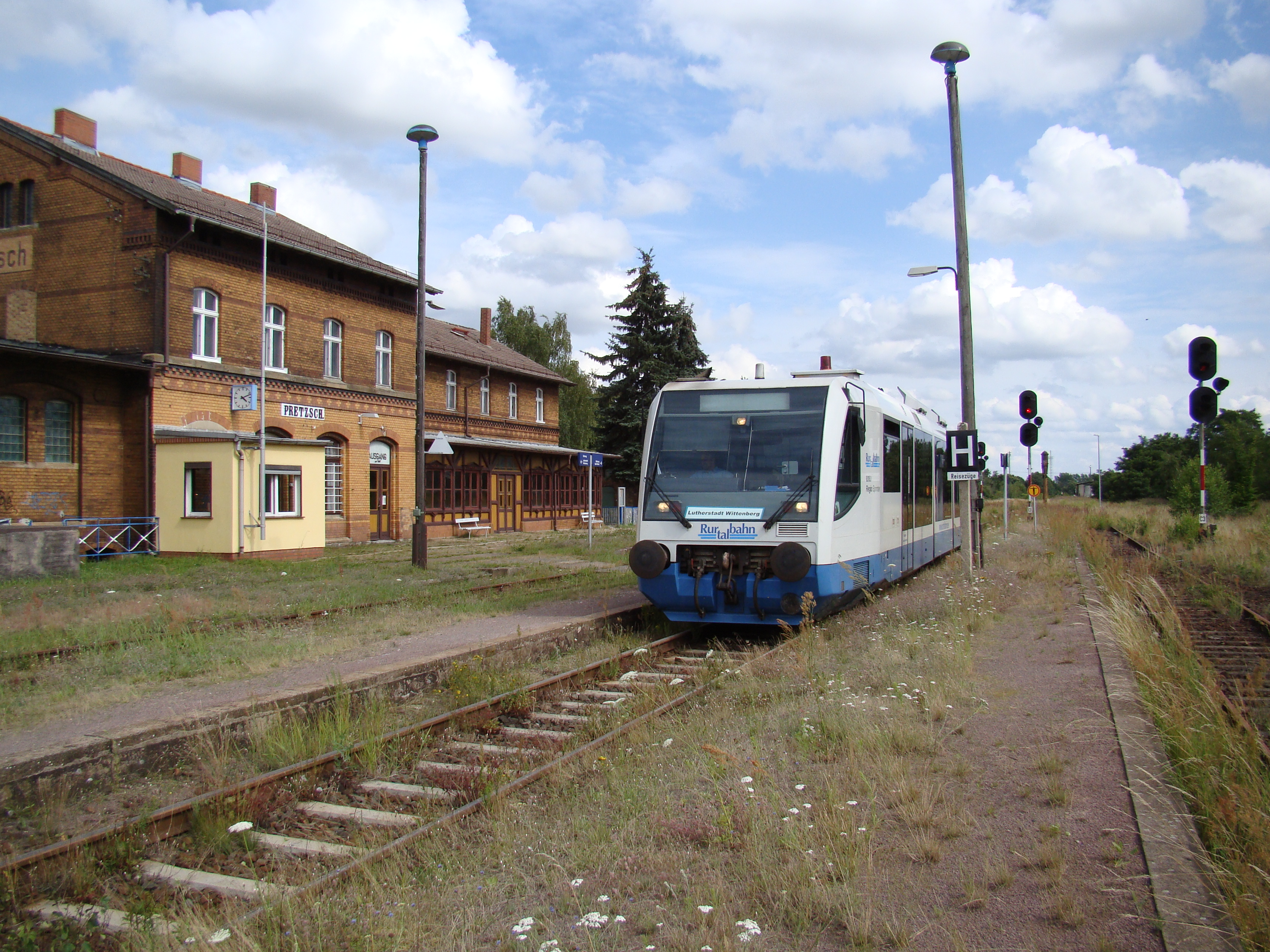 Railbus Regiosprinter in Pretzsch, Saxony-Anhalt (Germany)